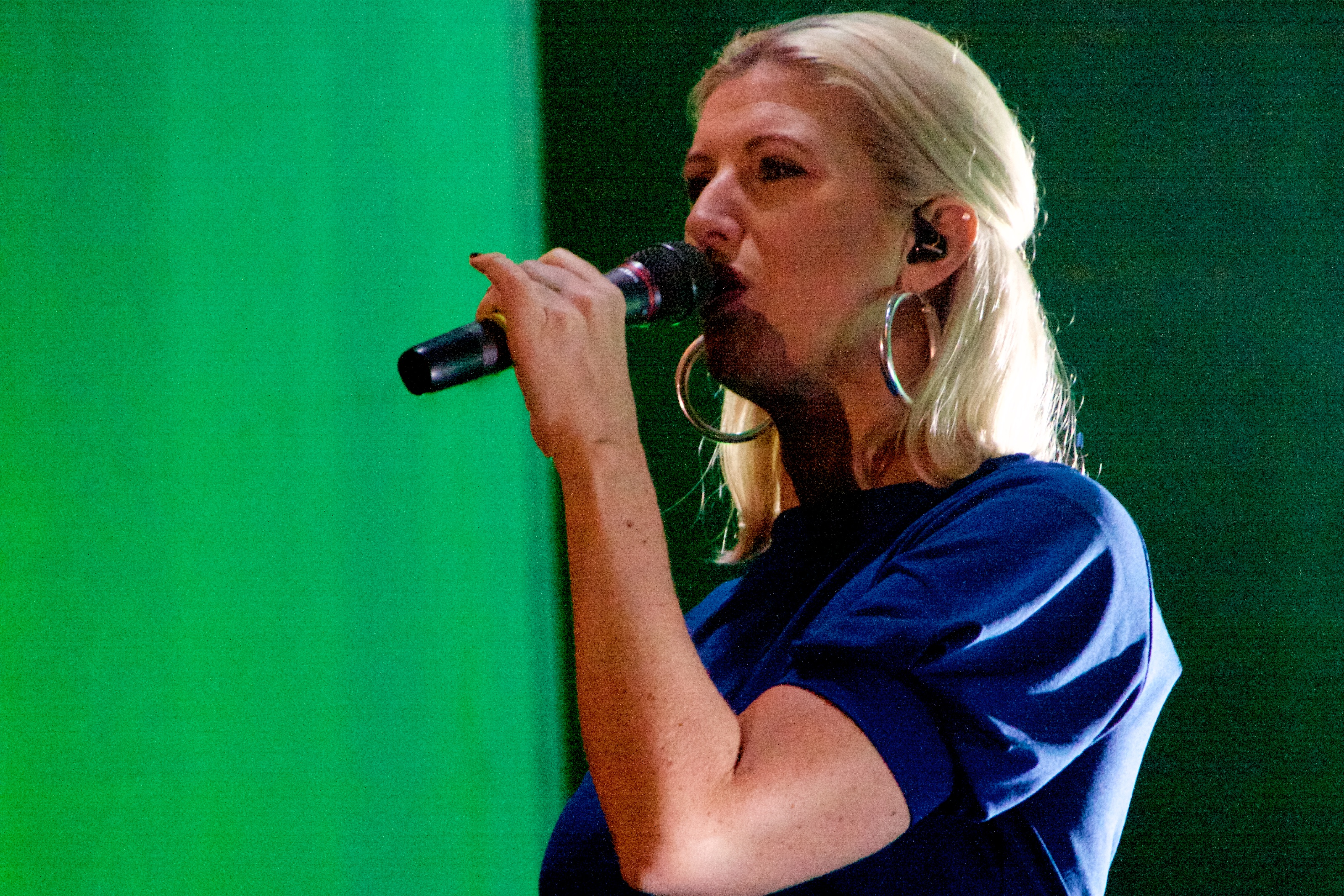 The swedish pop-singer MIa Löfgren on tour in Germany 2018